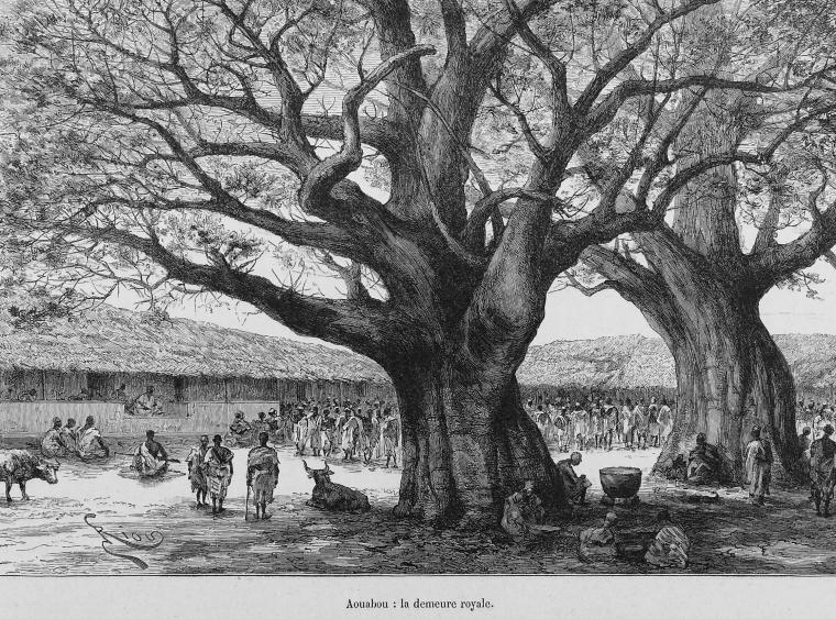 Huge trees over people in the Famienkro 'village square' in the N'zi-Comoé Region of southeastern Côte d'Ivoire (1887-1889).